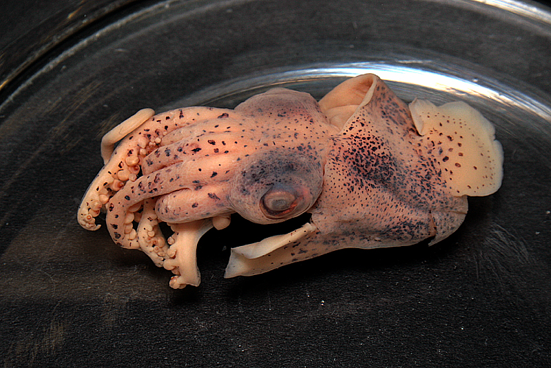 The "Little Cuttlefish", Sepiola atlantica. Also known as the Atlantic Bobtail, it is a species of bobtail squid native to the northeastern Atlantic Ocean (65ºN to 35ºN), from Iceland, the Faroe Islands and western Norway to the Moroccan coast.